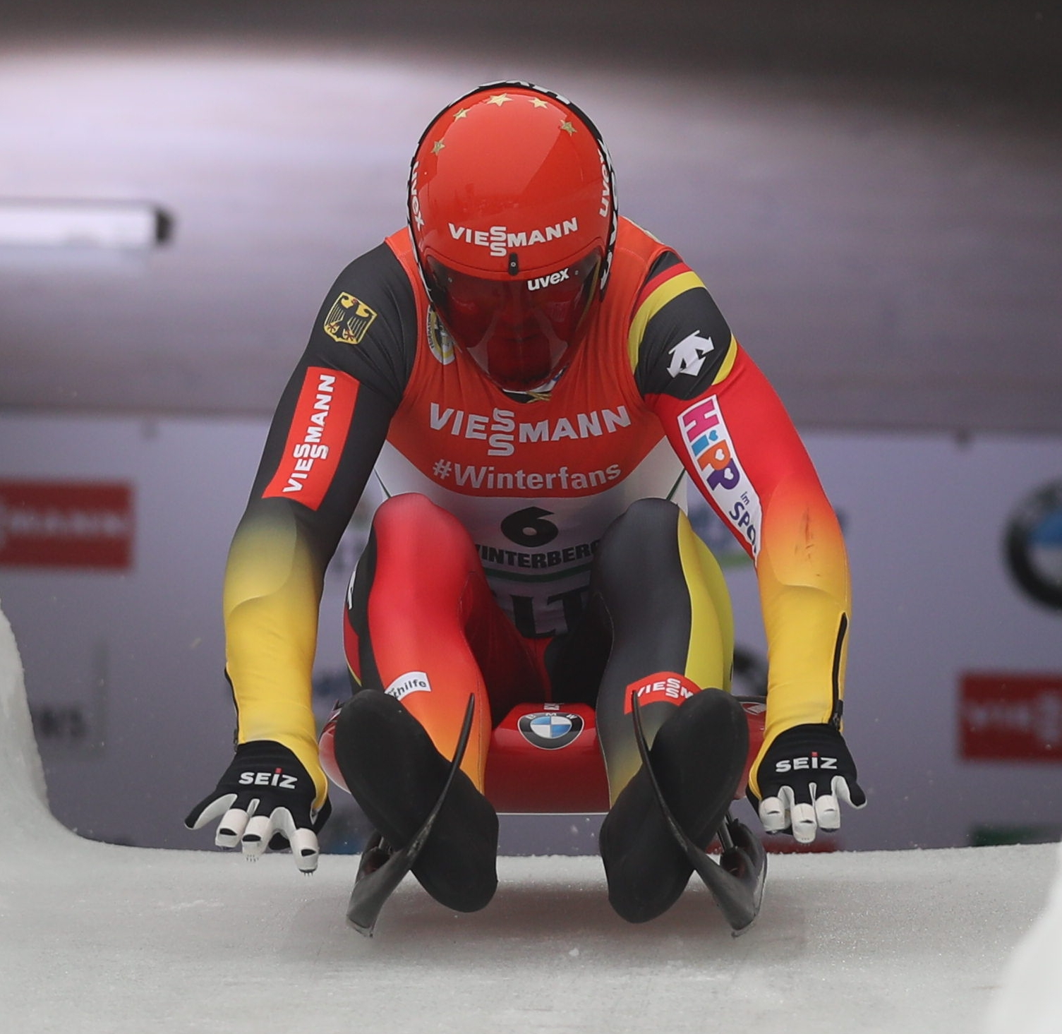 Men's race at the FIL World Luge Championships 2019 in Winterberg